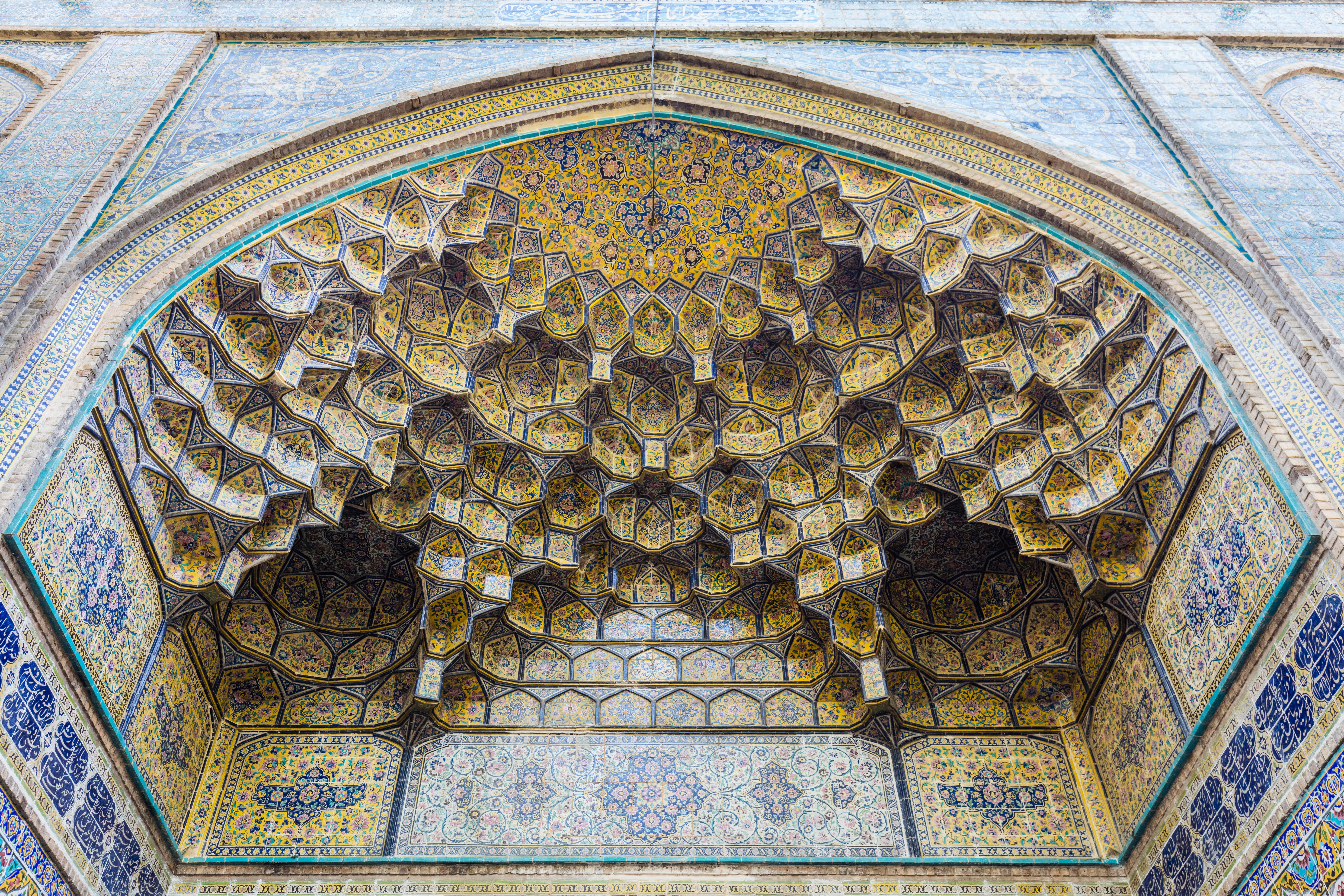 Grand Bazaar, Tehran, Iran